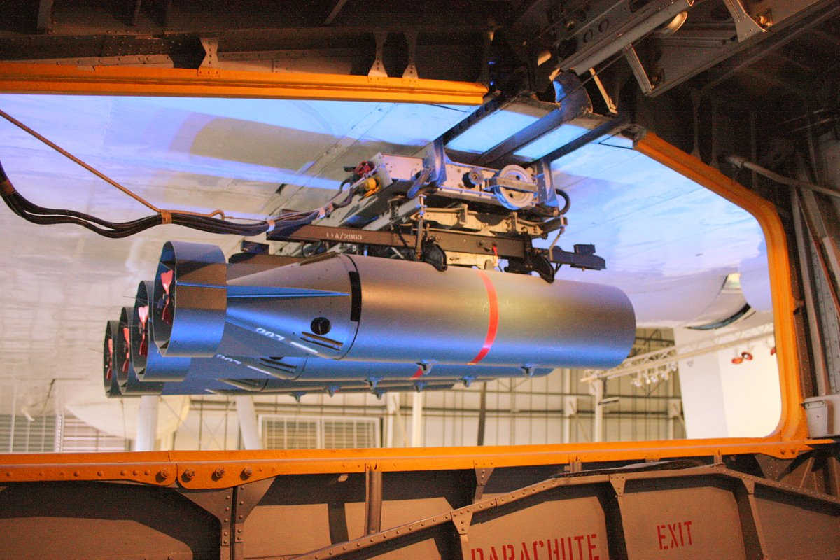 The left bomb rack of a Short Sunderland, taken from inside the bomb room of a surviving Sunderland on display at the RAF Museum Hendon.